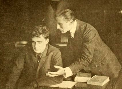 Still from the American film Regeneration (1915) with Rockliffe Fellowes and Carl Harbaugh, on page 629 of the February 1, 1919 Moving Picture World.